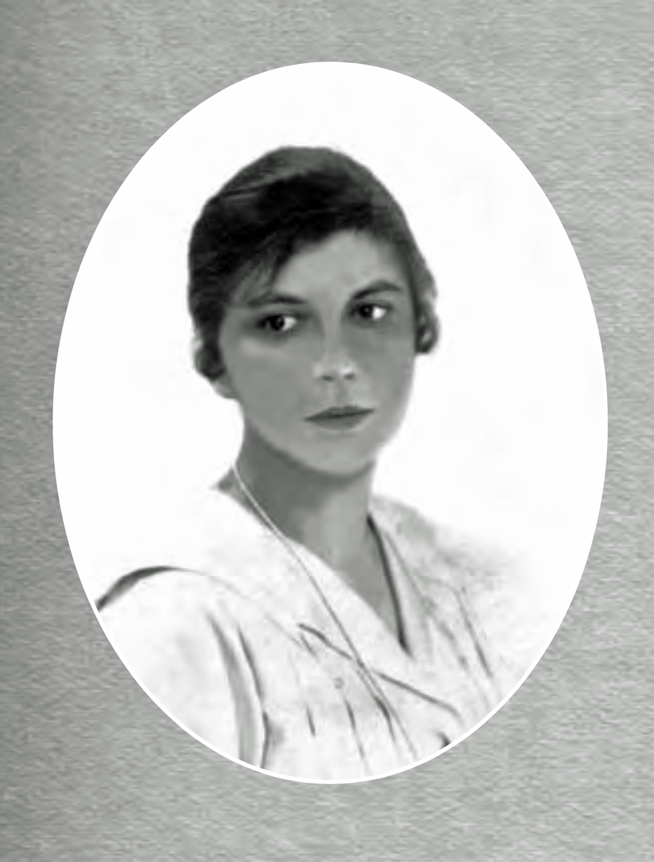 Finnish school principal and women's rights activist